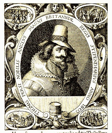 Portrait of Thomas Percy of the Gunpowder Plot by the Dutch engraver Crispijn van de Passe the Elder, engraving. 152 mm x 105 mm. Courtesy of the British Museum, London.